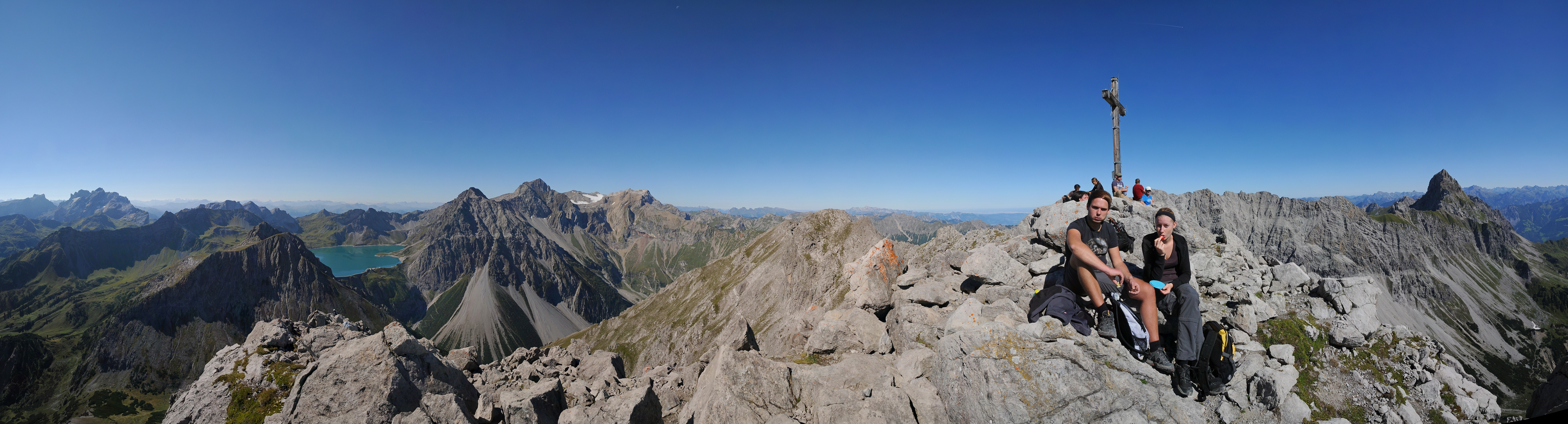 The Lüner Lake, seen from Mt. Saulakopf (2,517 m) in Austria. Left is Mt. Schafgafall (2,414 m) and right Mt. Seekopf (2.698 m). Behind the lake are Mt. Kanzelköpfe (2,437 m) and Mt. Girenspitze (2,394 m) in Switzerland.